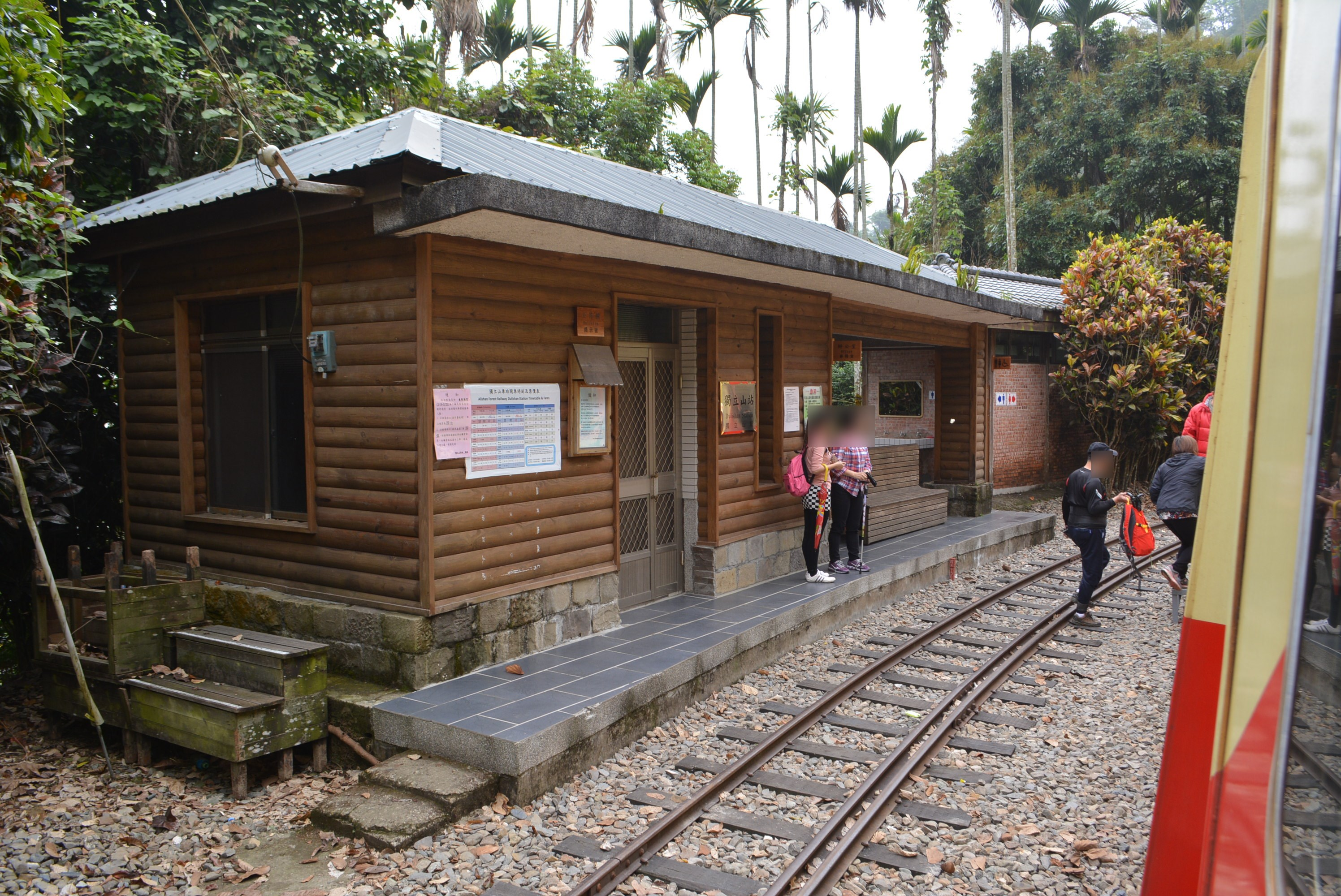 Dulishan Station,Chiayi District,Taiwan